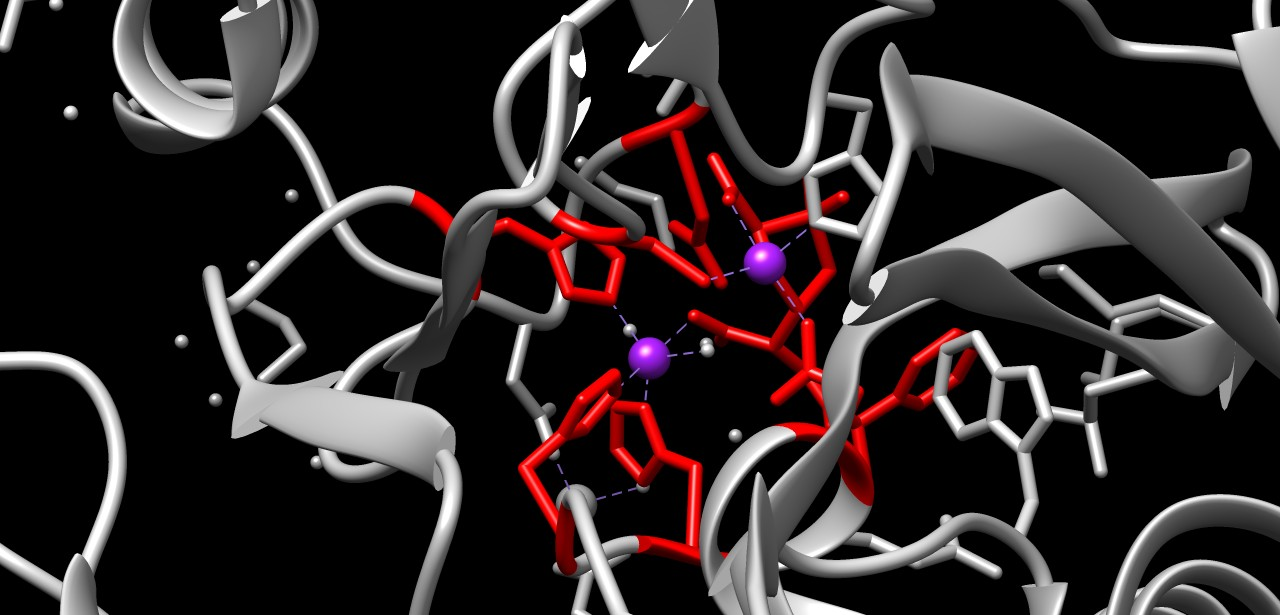 New Delhi metallo-beta-lactamase 1 active site. Modified from the PDB database (4HL2).